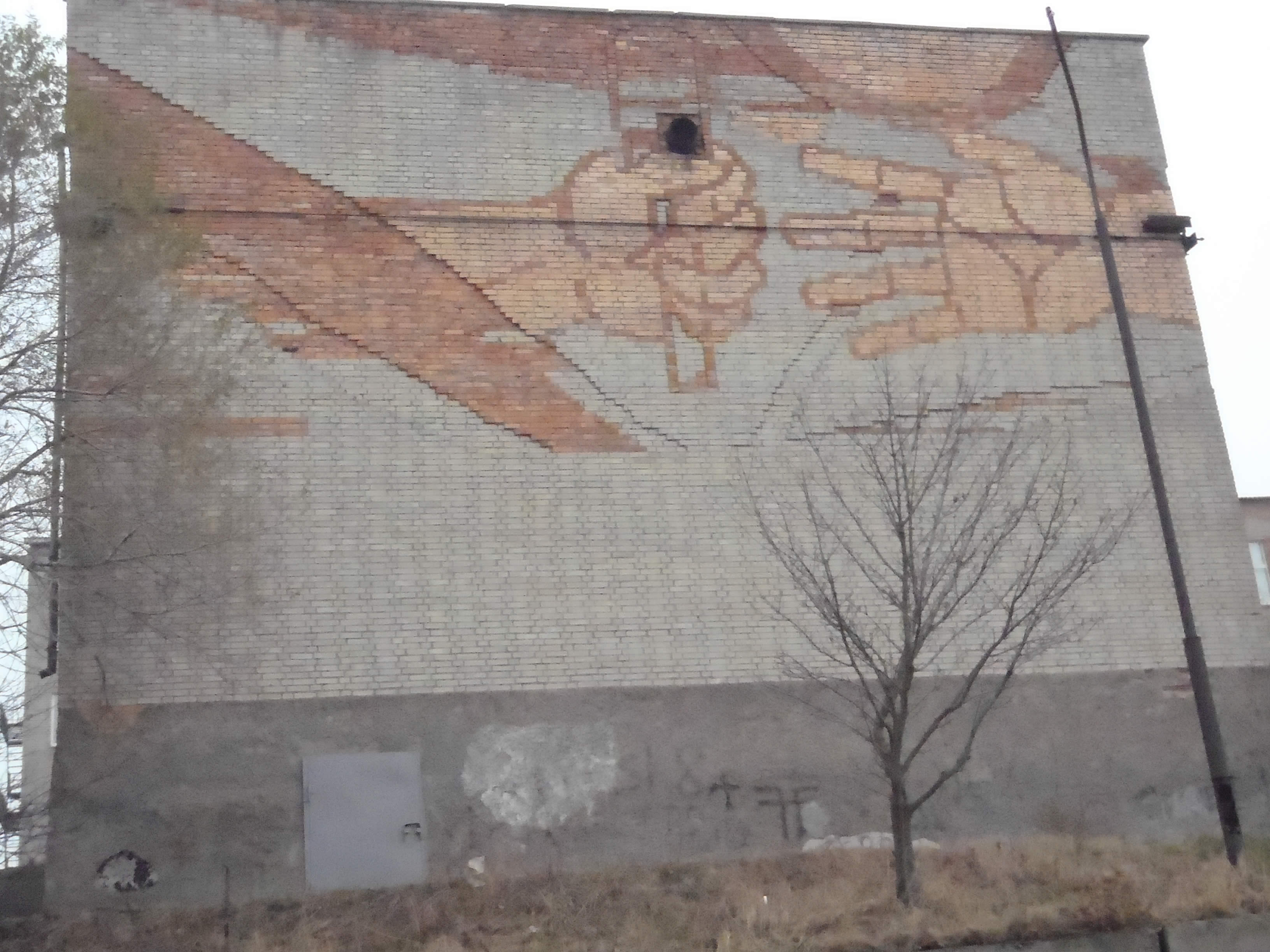 soviet mosaic (brick) on the wall Vladivostok State Medical University